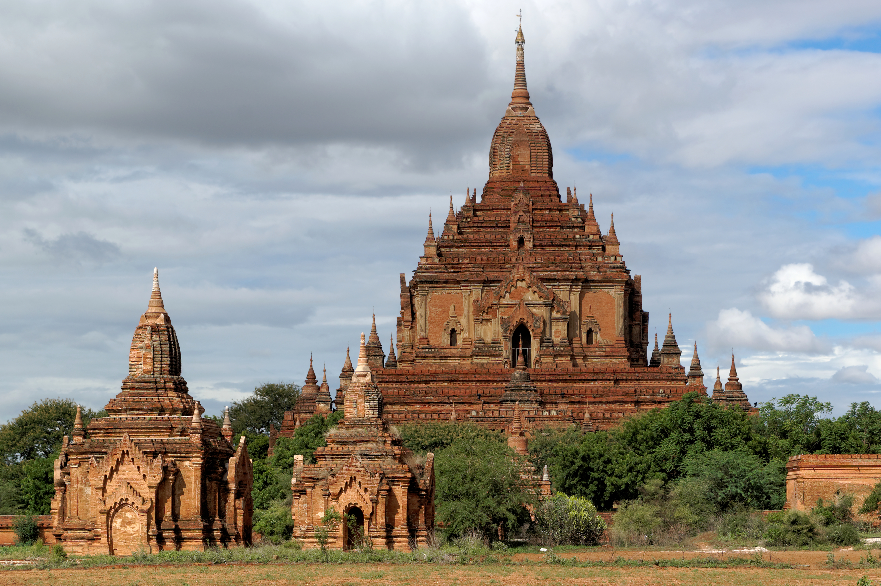 Htilominlo Temple, Bagan Archaeological Zone, Myanmar